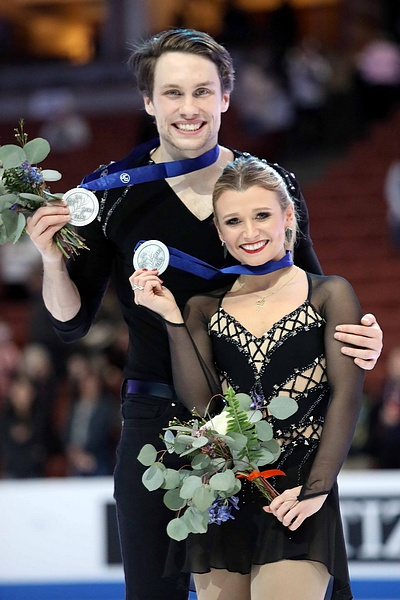 Kirsten Moore-Towers and Michael Marinaro at the 2019 Four Continents Championships - Awarding ceremony